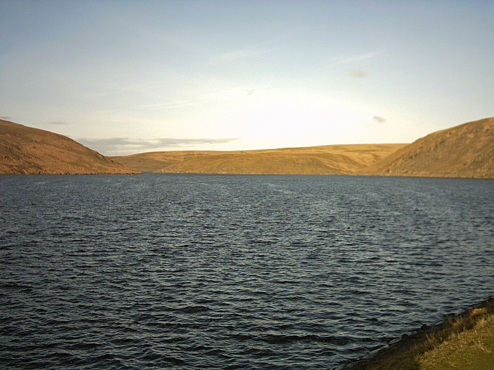 Claerwen Reservoir James McElroy 2005